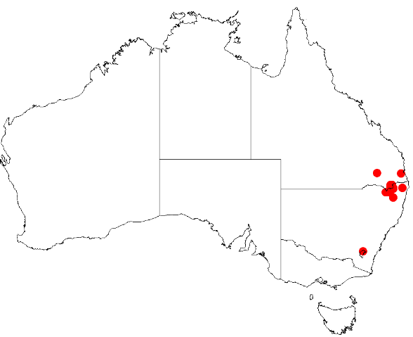 Acacia latisepala Occurrence data from Australasia Virtual Herbarium downloaded from on 8 December 2018